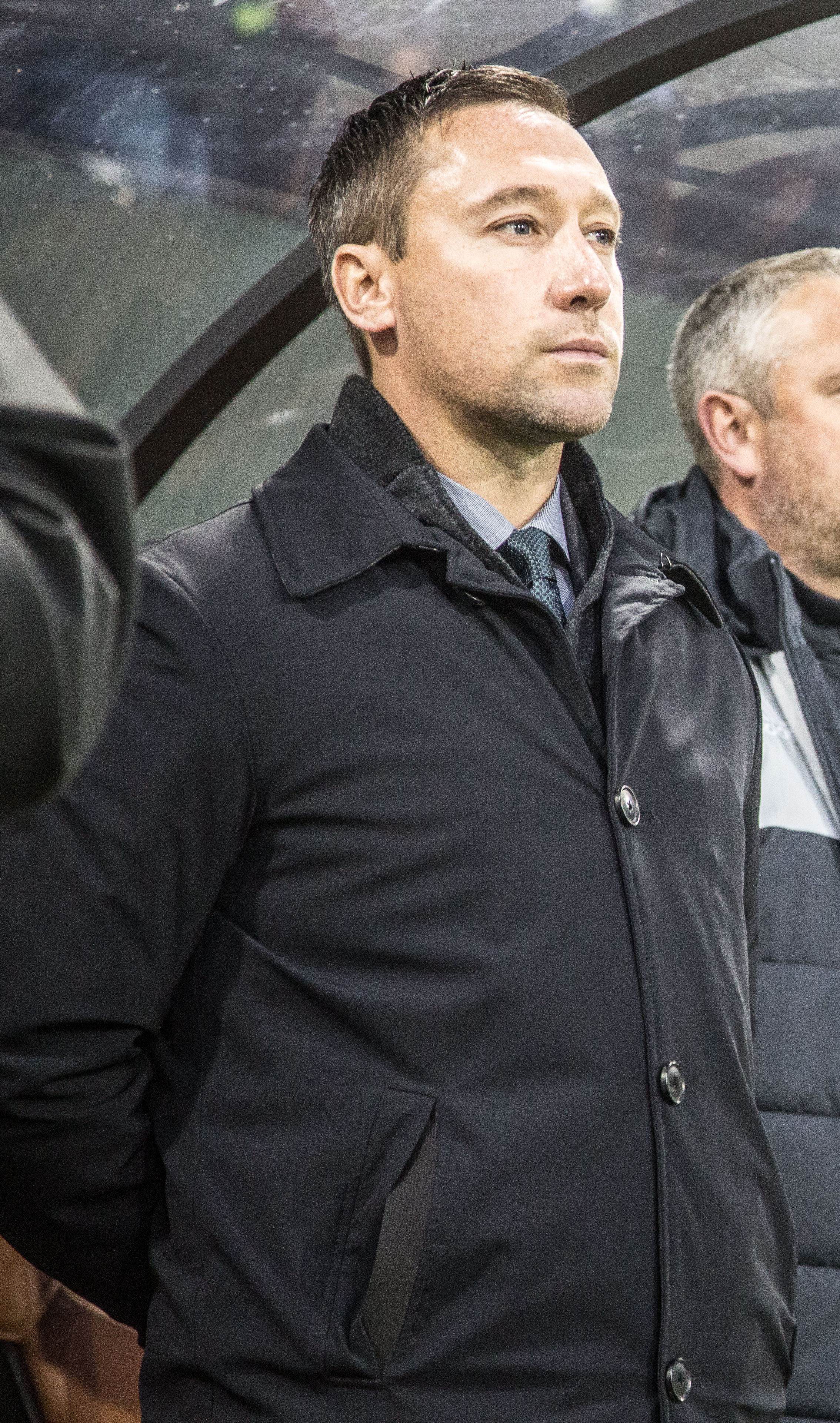 Coaches of Portland Timbers